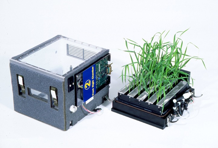 BPS (Biomass Production System) Root Module with dwarf wheat plants